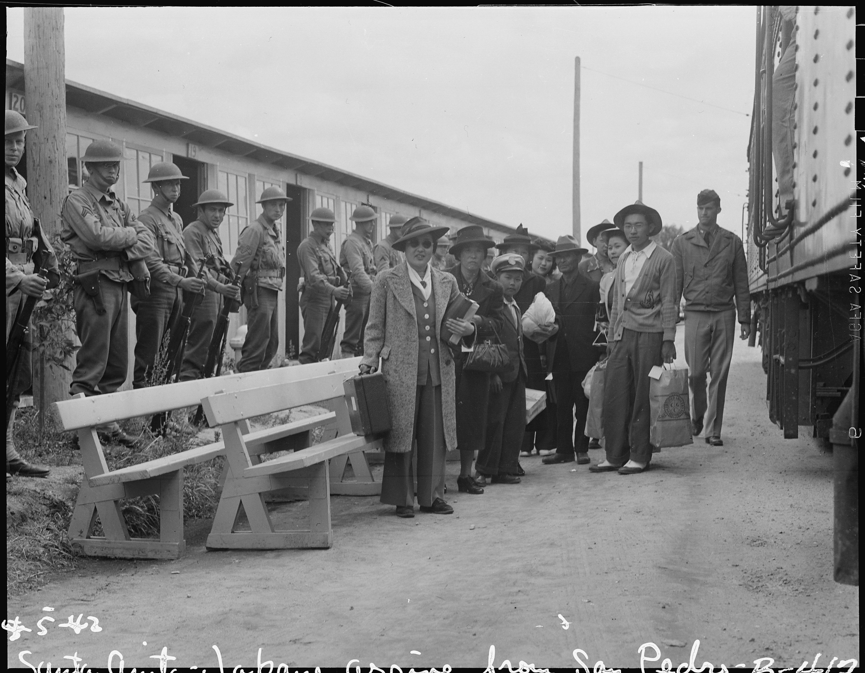 Scope and content: The full caption for this photograph reads: Arcadia, California. Evacuees of Japanese ancestry from San Pedro, California, arrive by special trains for Santa Anita assembly center. Evacuees are transferred later to War Relocation Authority centers for the duration.